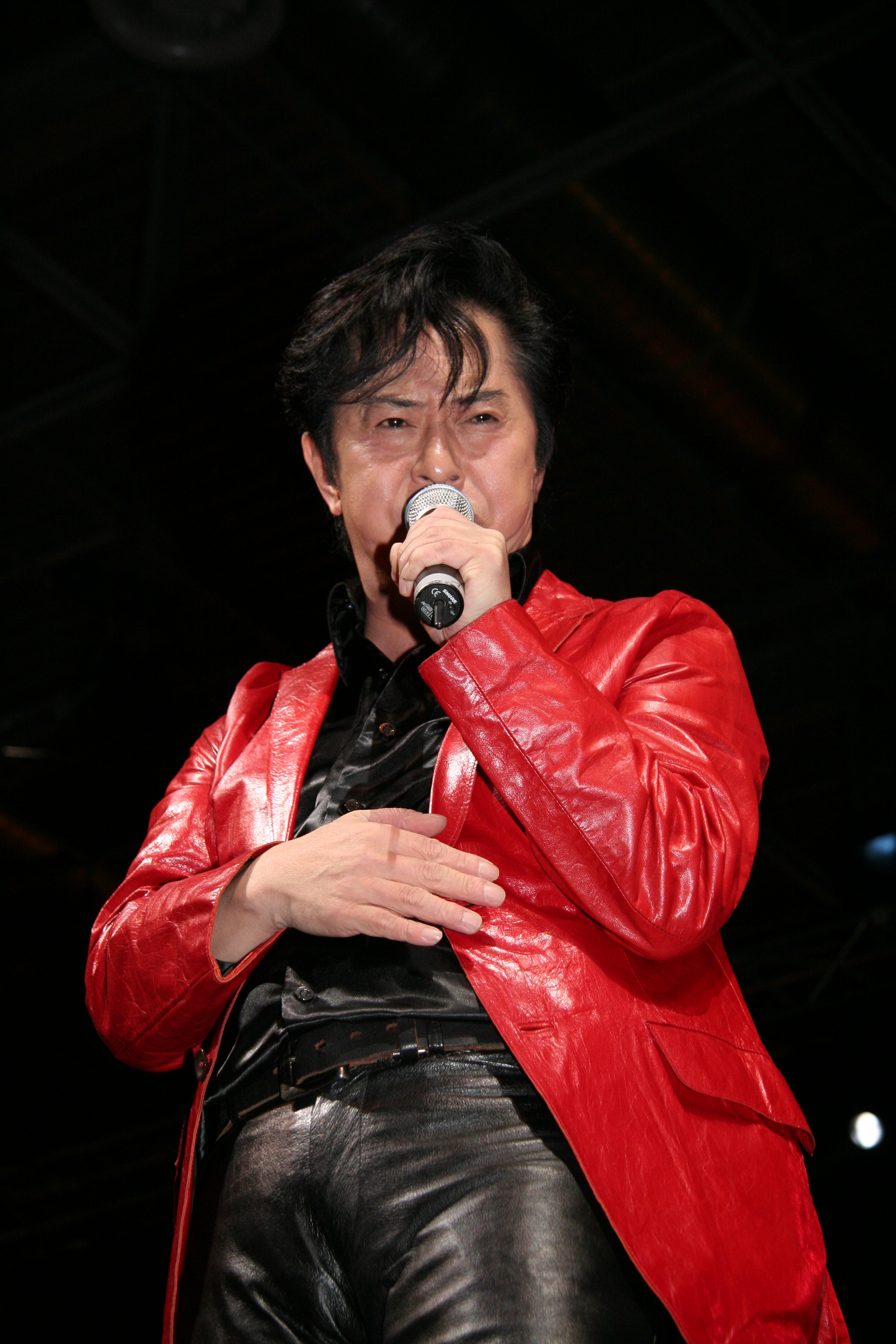 Ichiro Mizuki live at Japan Expo 2007 (Paris, France).